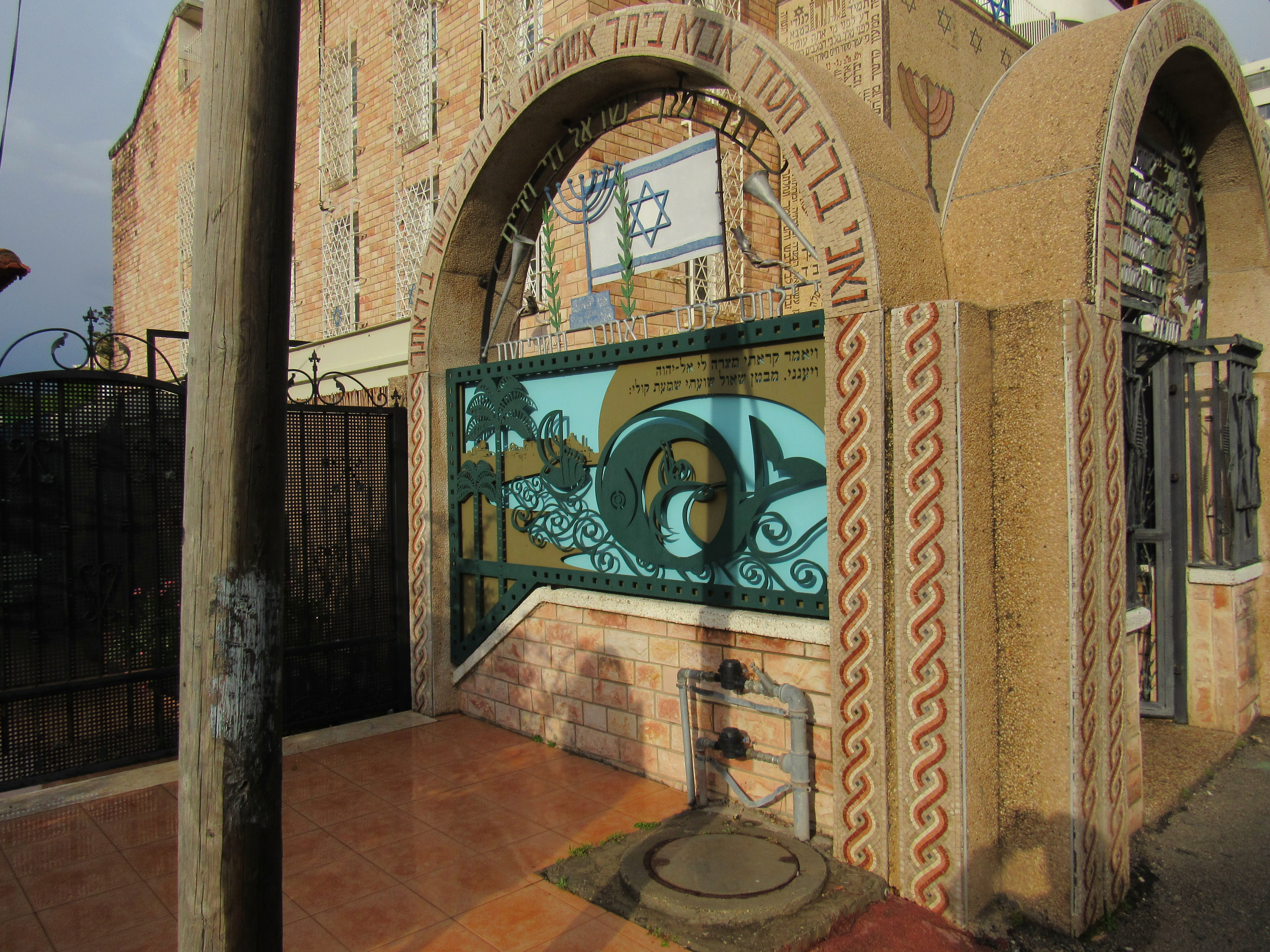 The Tunisian Jews Synagogue, Akko (11 April, 2015)